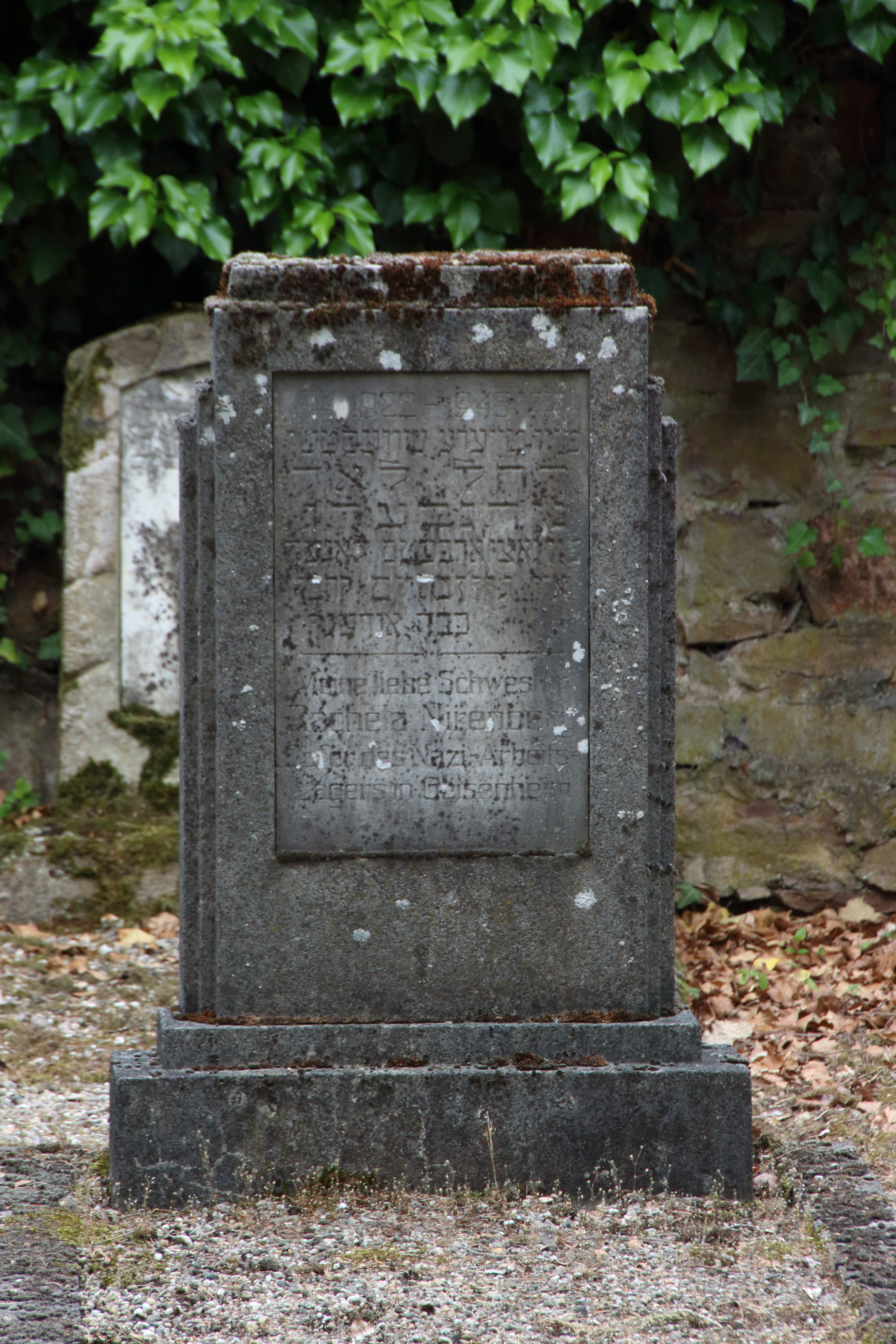 Grave of Rachela Nirenberg (1922-1945). She died in the Nazi concentration camp Geisenheim, a subcamp of Natzweiler-Struthof. Inscription in